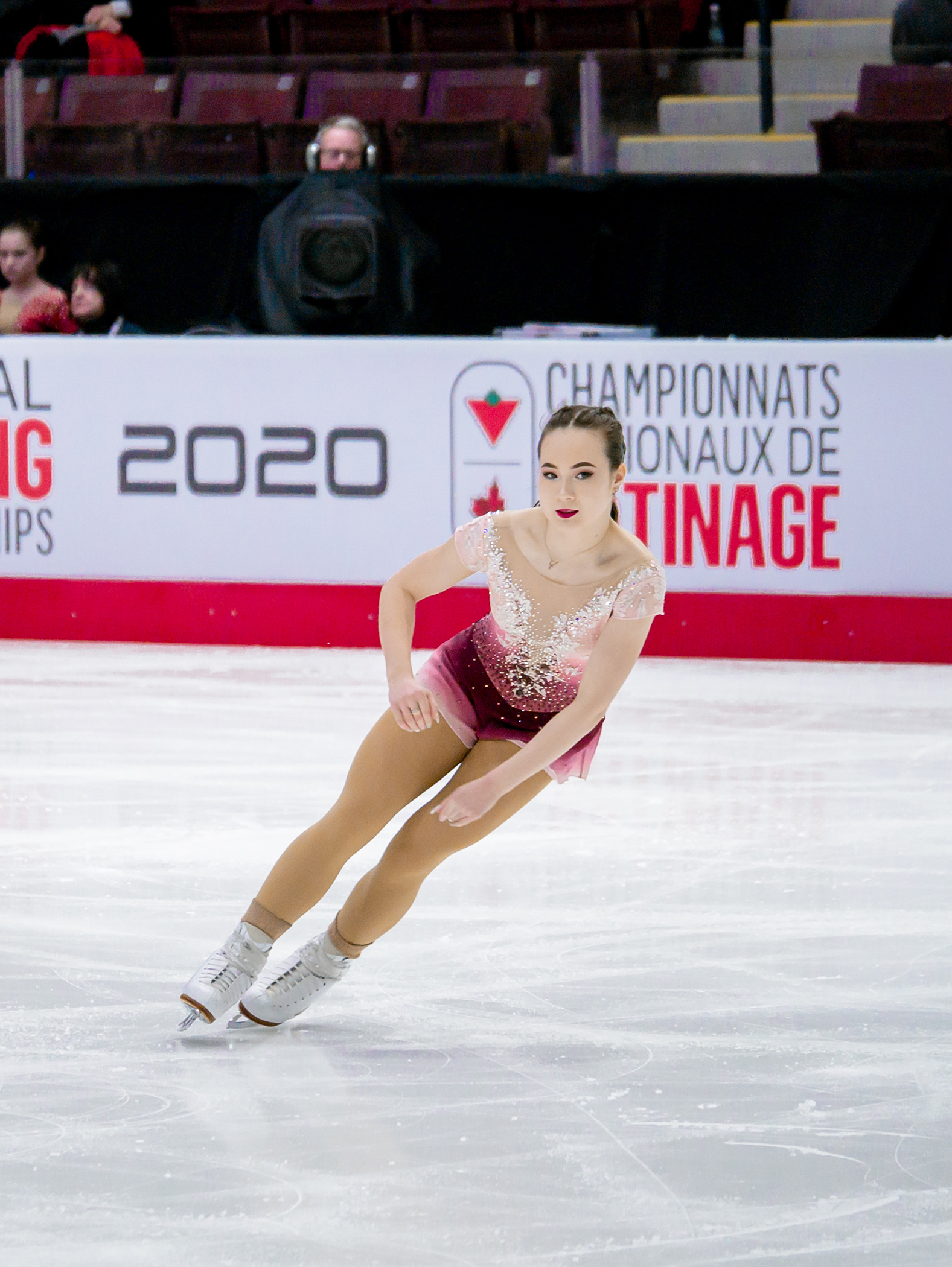 2020 Canadian National Figure Skating Championships- Emily Bausback- Free Program.